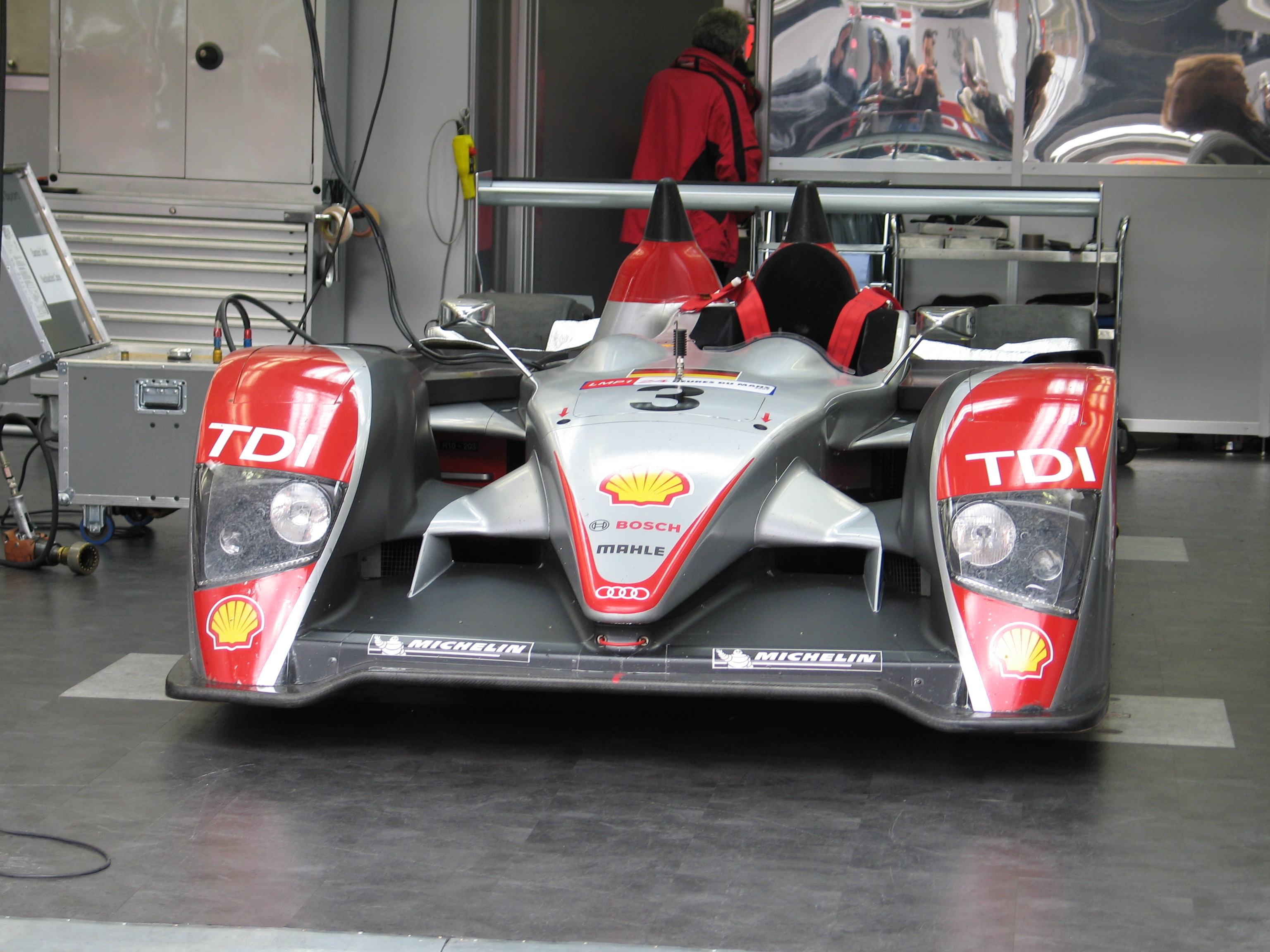 An Audi R10 TDI at the 2007 24 Hours of Le Mans